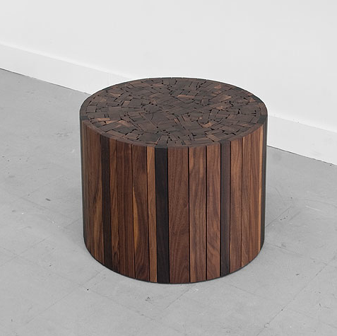 Uhuru Design: one of Uhuru's original designs, and still the most popular, each Stoolen is created from collected scraps of hardwood from local workshops and a found bicycle rim (optional). Bill Hilgendorf’s commitment to sustainability and love of found objects brought this piece to life and helped to define the term “up-cycling” --- using discarded low value materials to create a high-valued item. Available in custom sizes and finishes. Hand built to order, signed and numbered by the maker in Red Hook Brooklyn and accompanied by a certificate of authenticity.